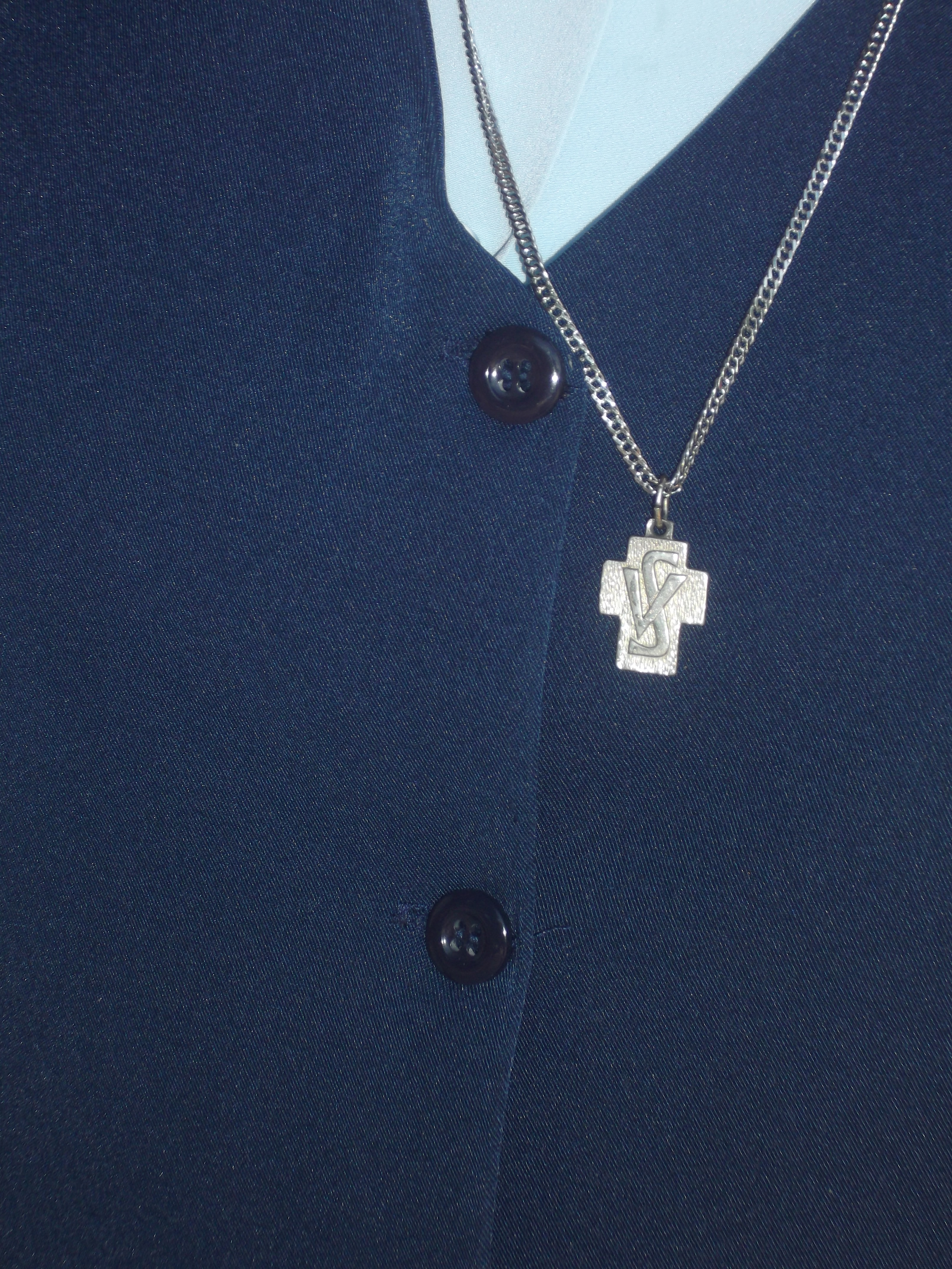 Company of the Daughters of Charity of Saint Vincent de Paul